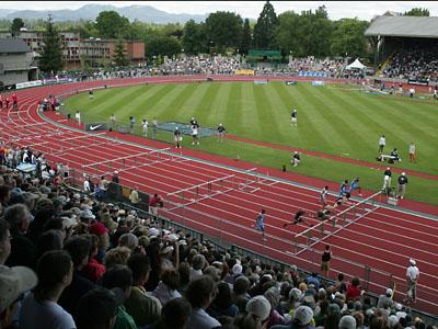 Spectators watch the 110-meter hurdles. Hayward Field has hosted the last two editions of the championships.